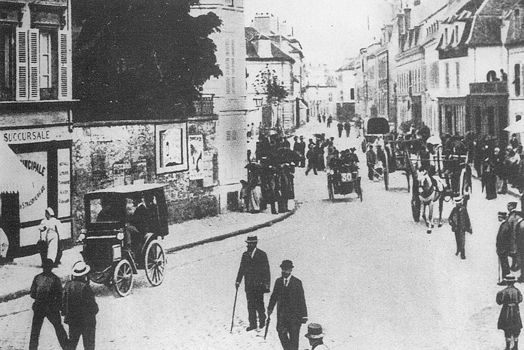 Gratien Michaux in Peugeot 3hp at 1894 Paris-Rouen race (9th place)